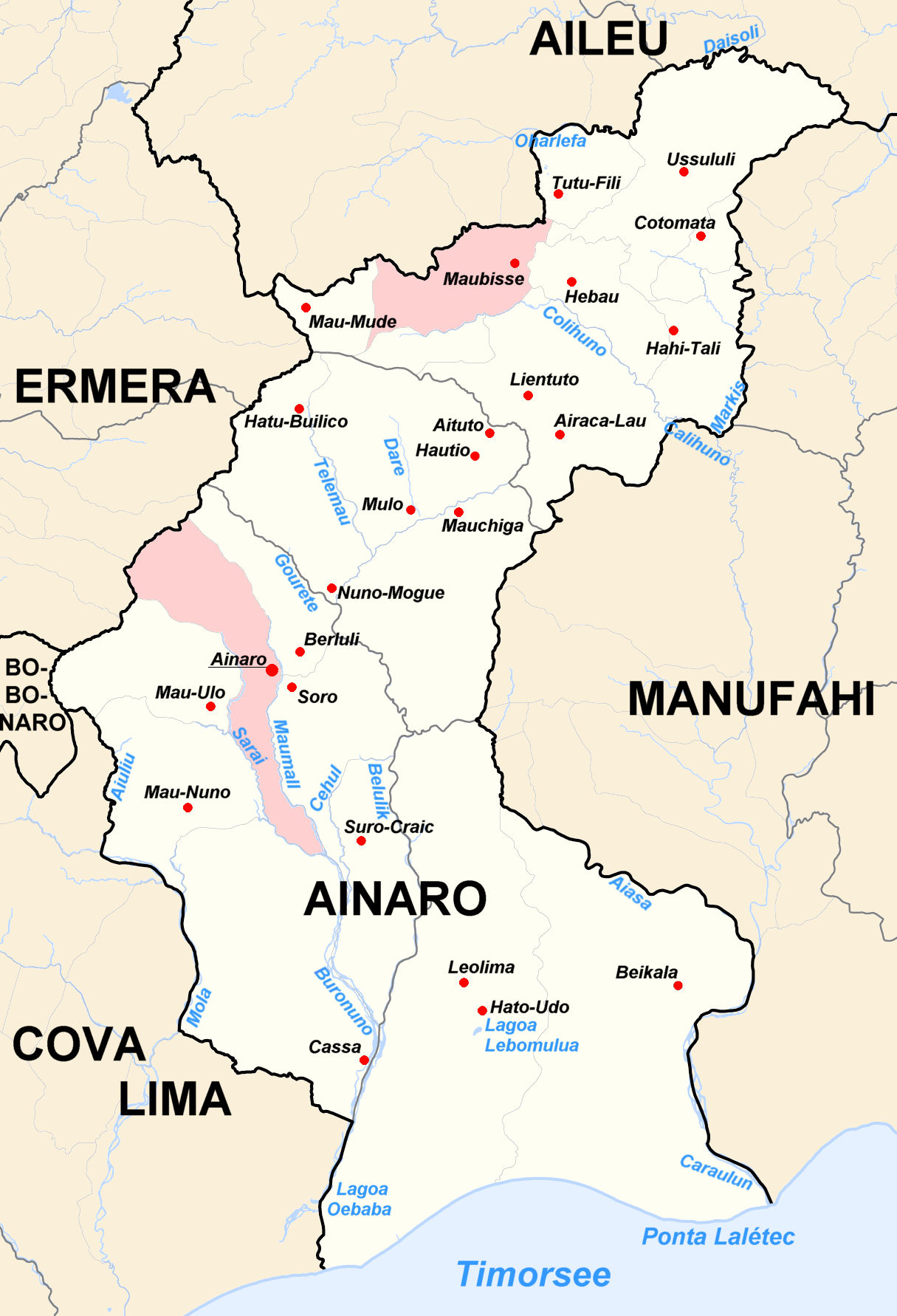 Cities and rivers of district of Ainaro (East Timor). Urban sucos in pink.